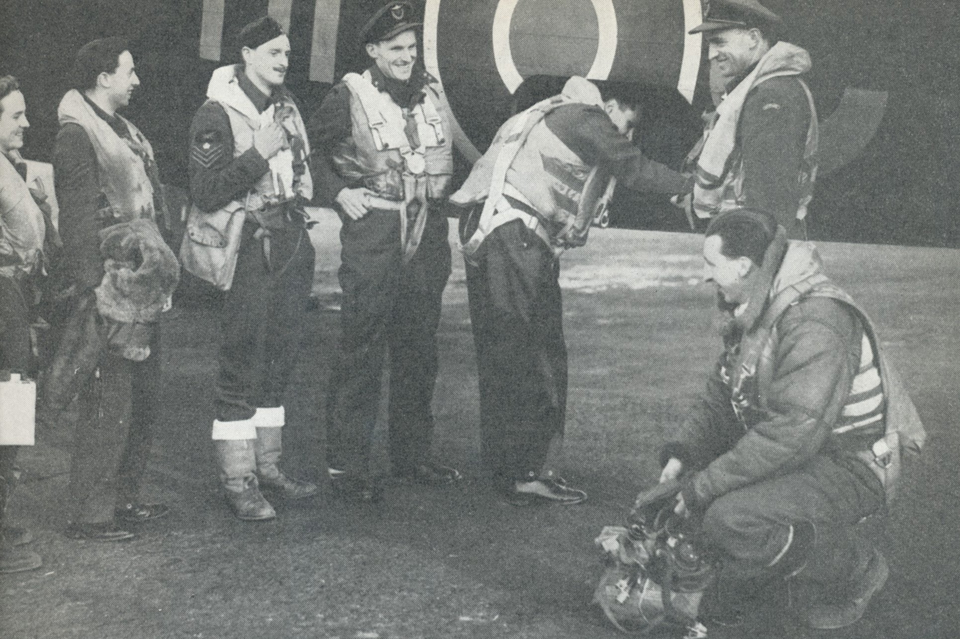 Gunnar Halle with his crew, No. 76 Sqdn RAF, before their 30. mission. Halle, standing right, Hallvard Vikholt 4th from the left